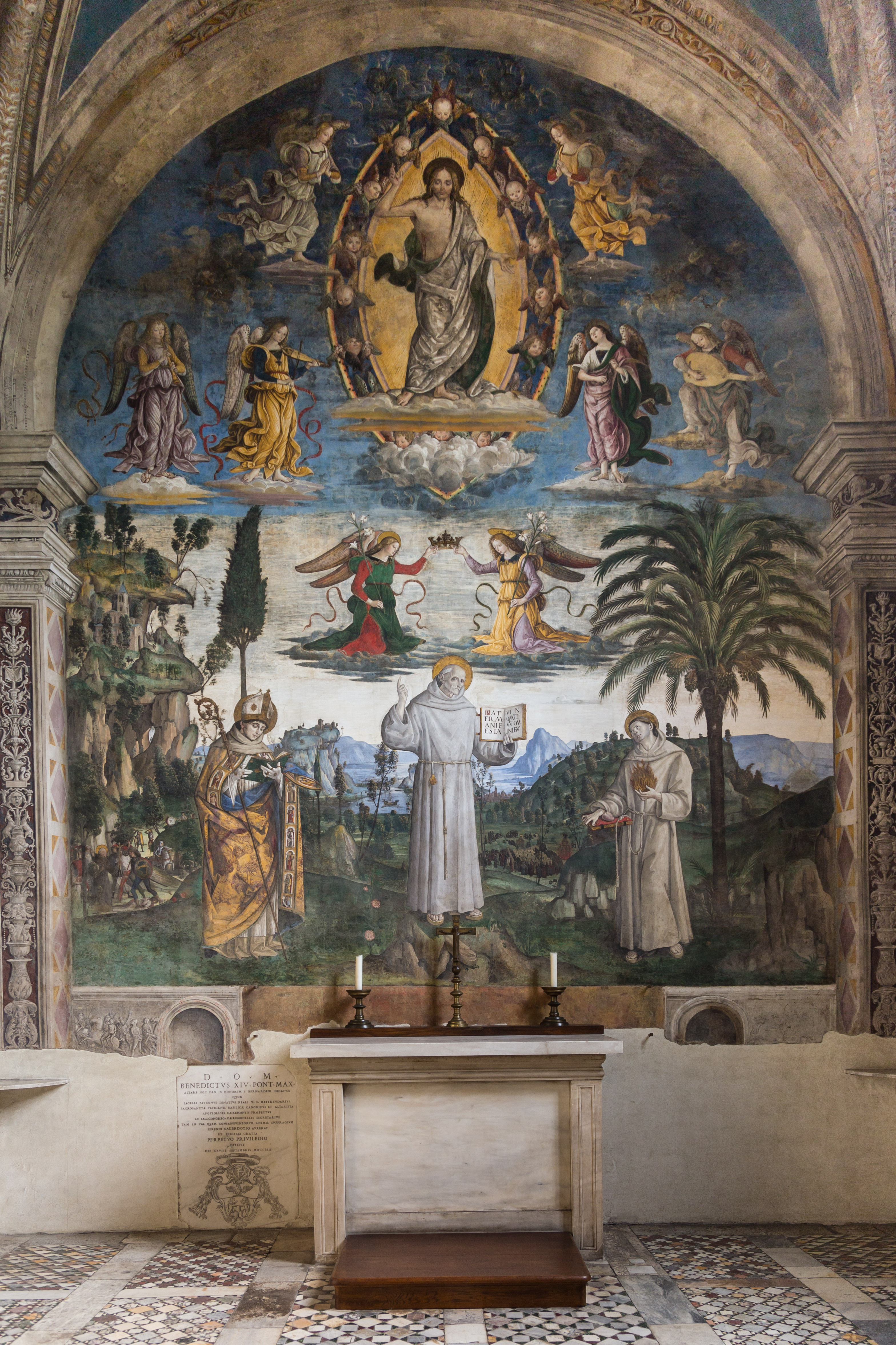 Bufalini chapel in the Santa Maria in Aracoeli, Rome